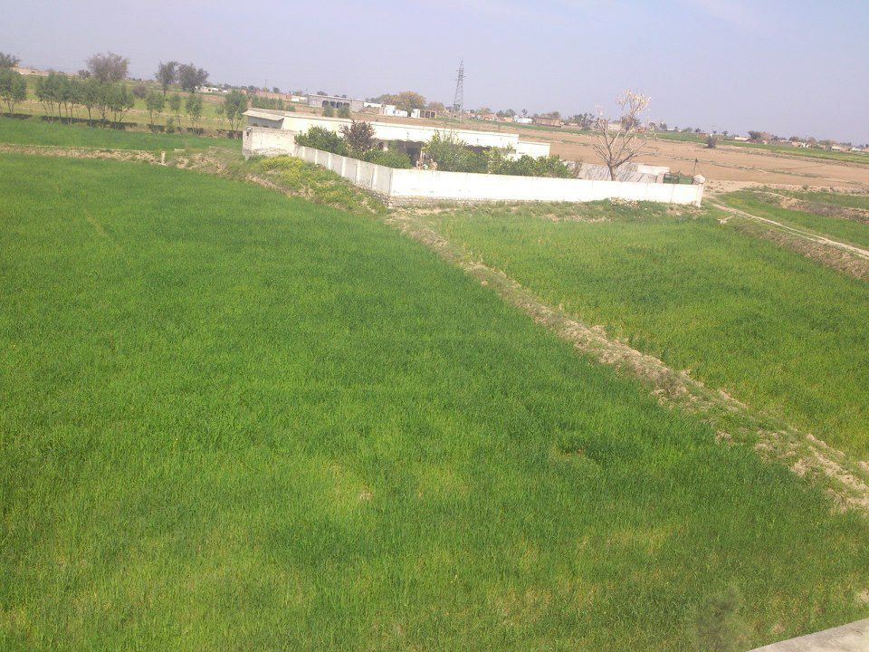 Khuian(My Village Home)